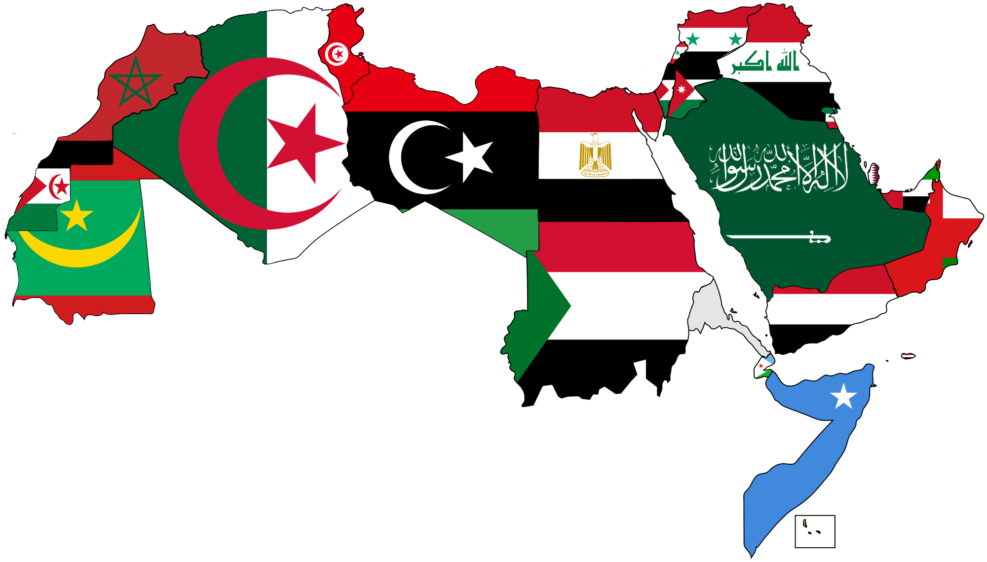 Map of Arabic-speaking countries